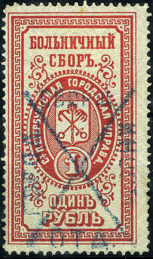 St. Peterburg. Stamp of hospital tax, 1 ruble, late 19th century.